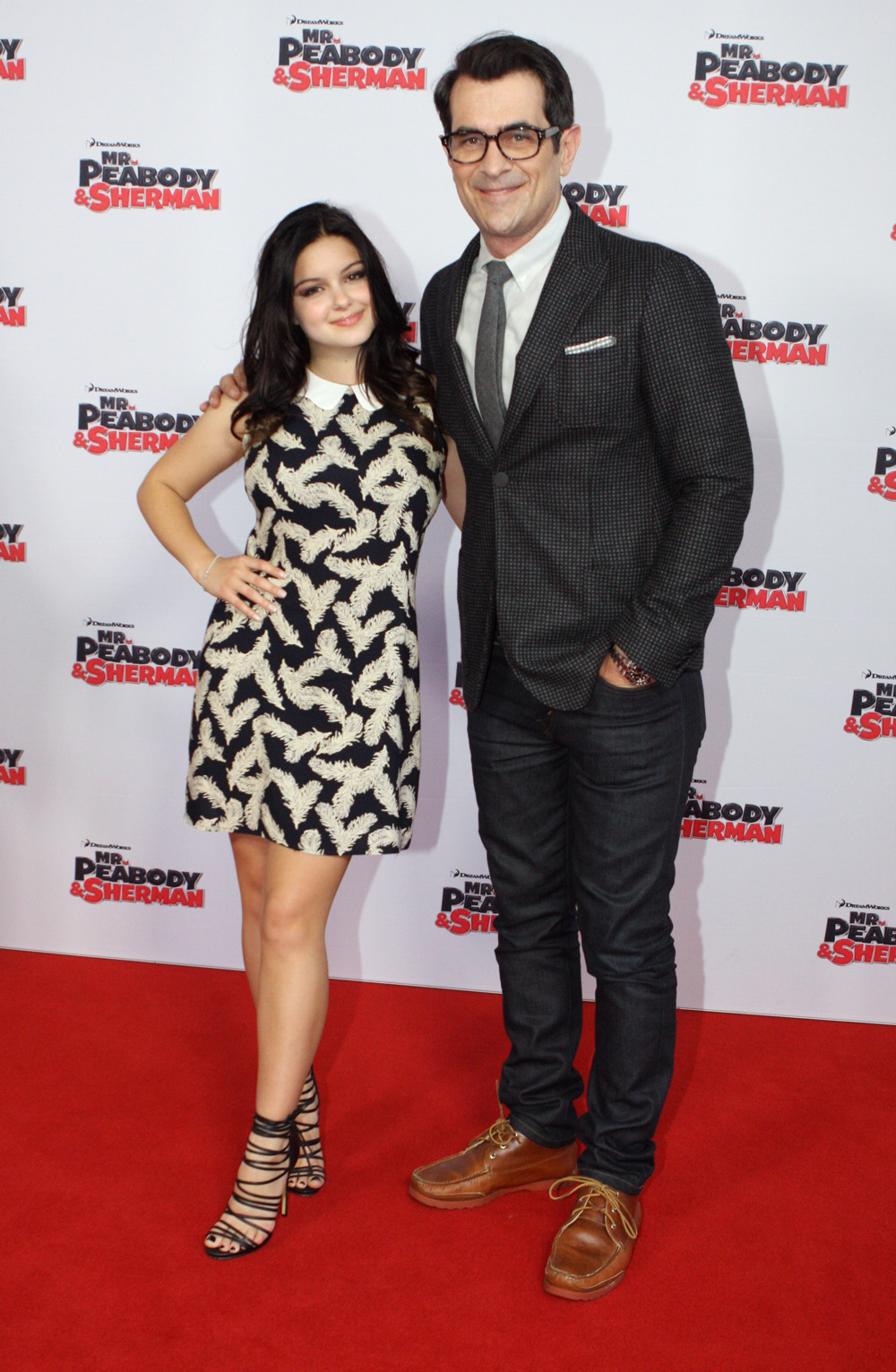 Mr Peabody and Sherman Premiere, Hoys Entertainment Quarter, Moore Park Sydney Australia